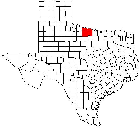 Map of Texas highlighting the Wichita Falls Metropolitan Statistical Area; created using the GIMP. Made by User:Acntx.